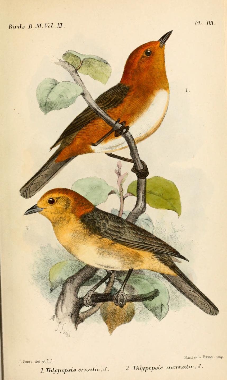 Thlypopsis ornata, Rufous-chested Tanager (above); and Thlypopsis inornata, Buff-bellied Tanager (below)